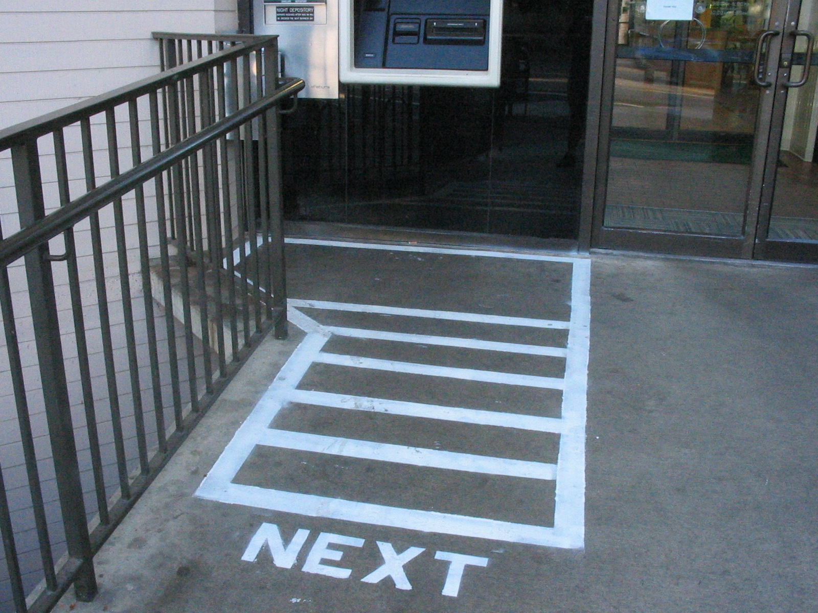 NEXT - A line painting on the ground trying to organize users of an ATM. Eugene, Oregon.